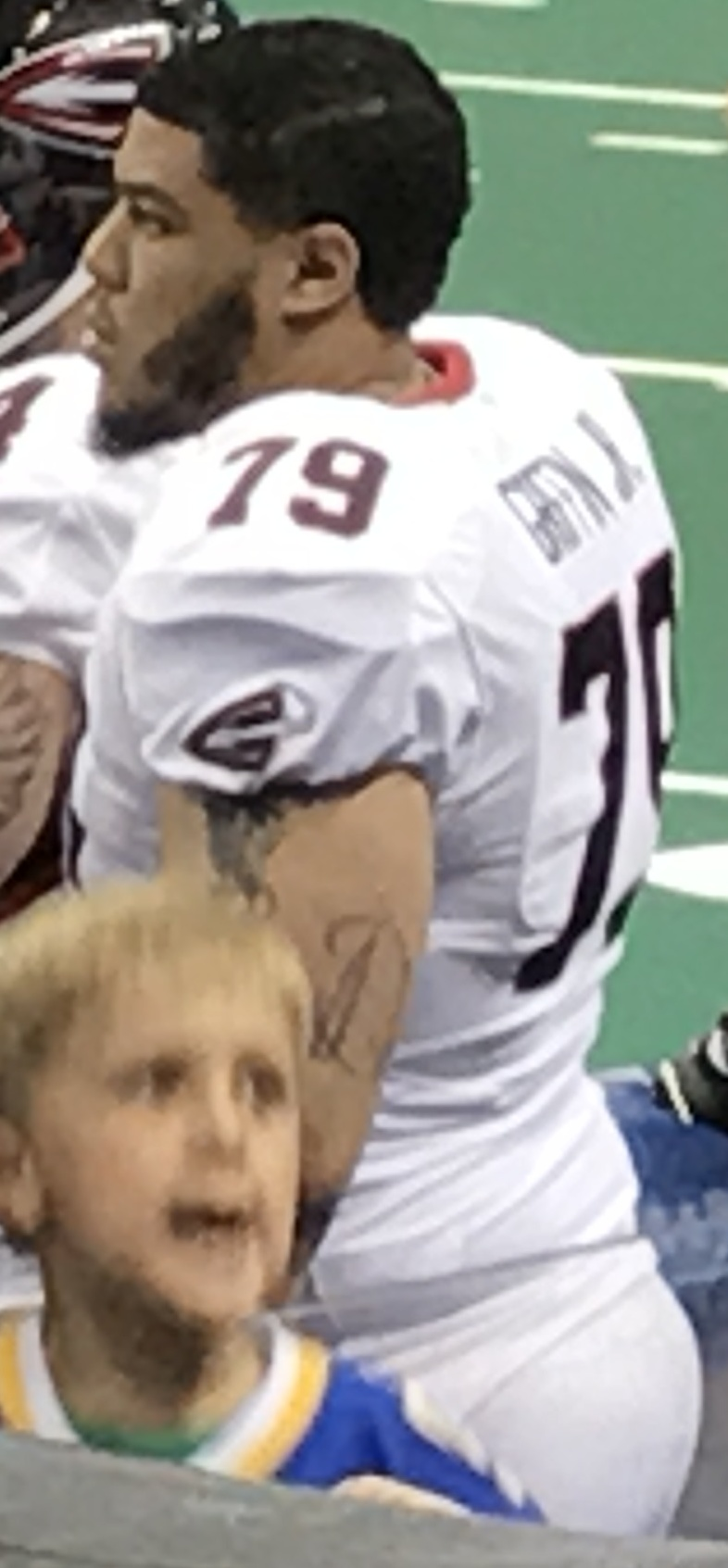 Cleveland Gladiators on the bench